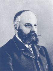 Image of Prince Pavel Dimitrievich Dolgoroukov (1866 - 1927), Deputy Chairman of de State Duma of Imperial Russia in 1906